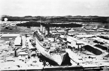 Australian War Memorial image 128444. The ocean liner Queen Mary in Singapore Graving Dock.